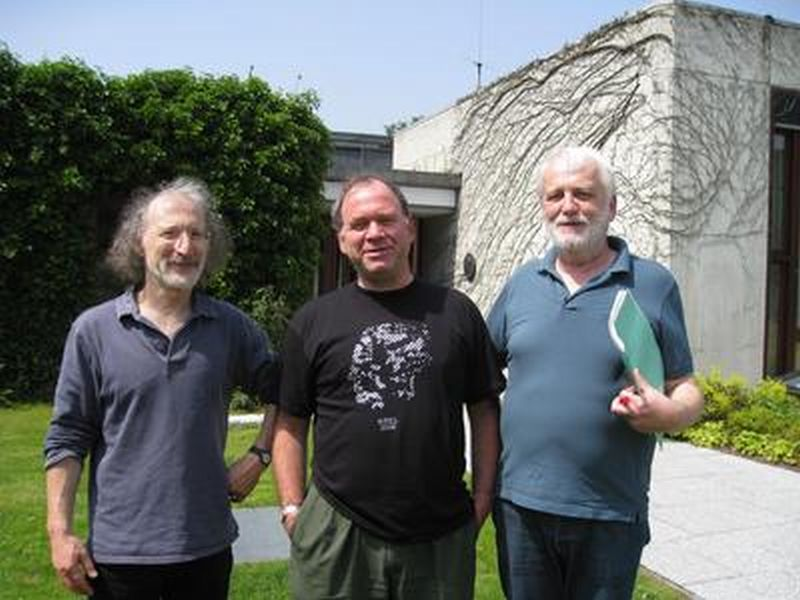 From Left: Dan Segal, Alexander Lubotzky, Fritz Grunewald, Oberwolfach 2008